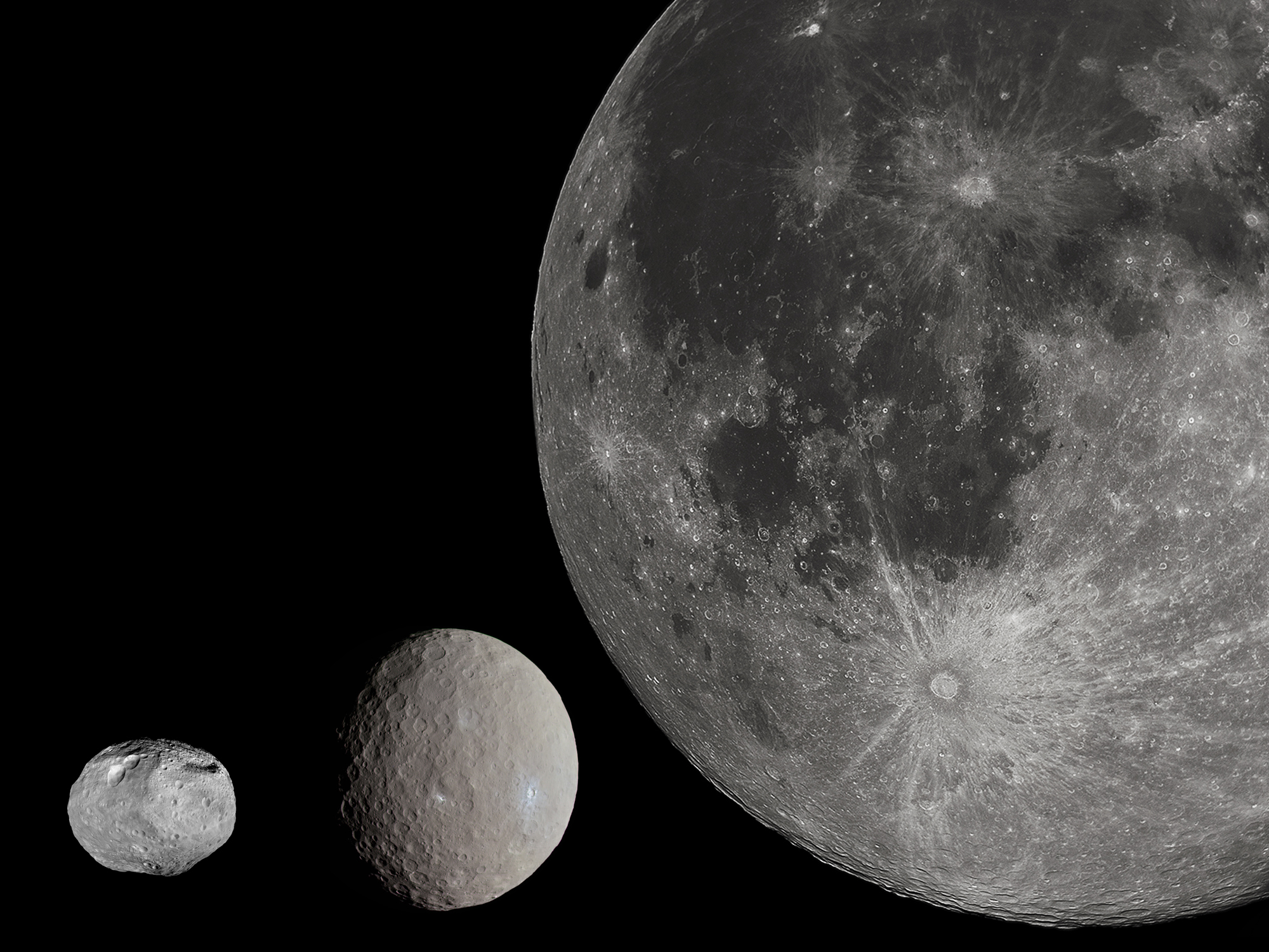 The asteroid (4) Vesta and the dwarf planet (1) Ceres shown alongside the Earth's Moon. The scale is 20 km/px.